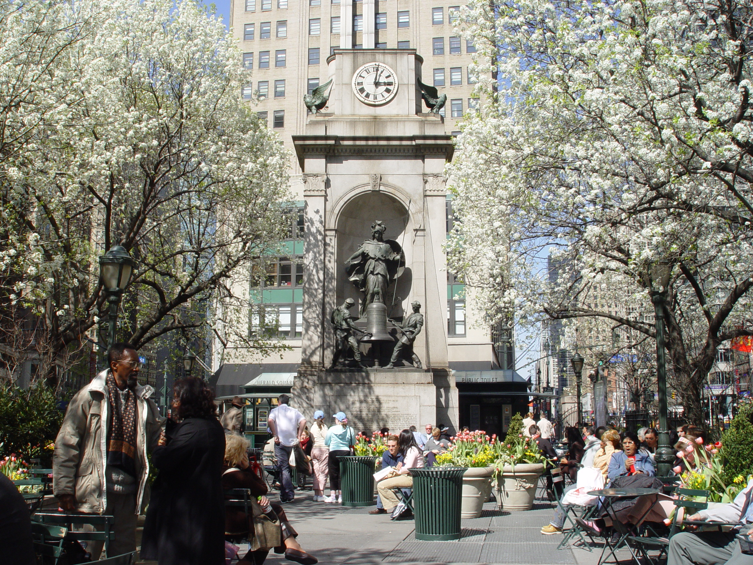 Looking north in Herald Square in New York City.